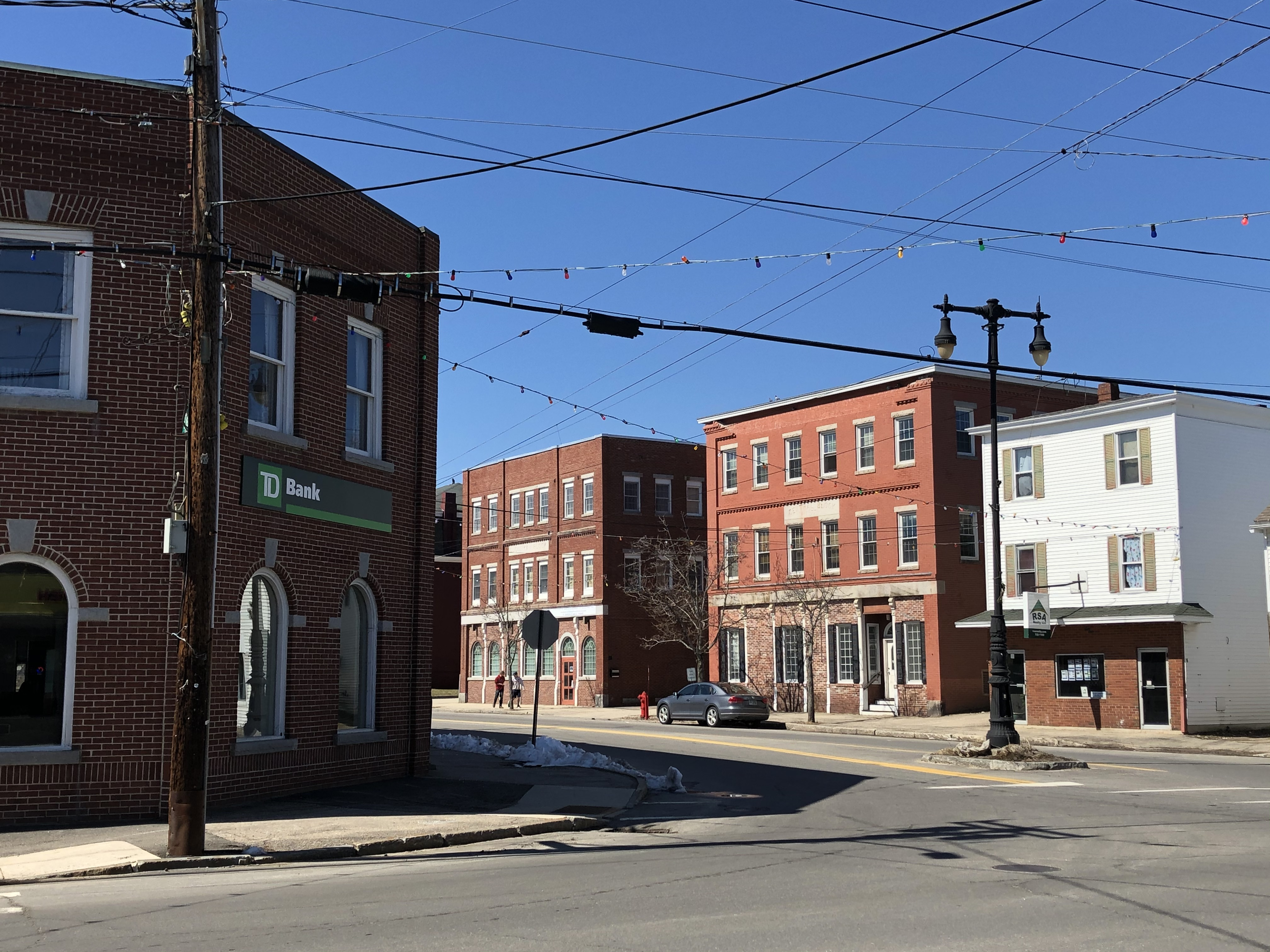 Center of Farmington (CDP), New Hampshire